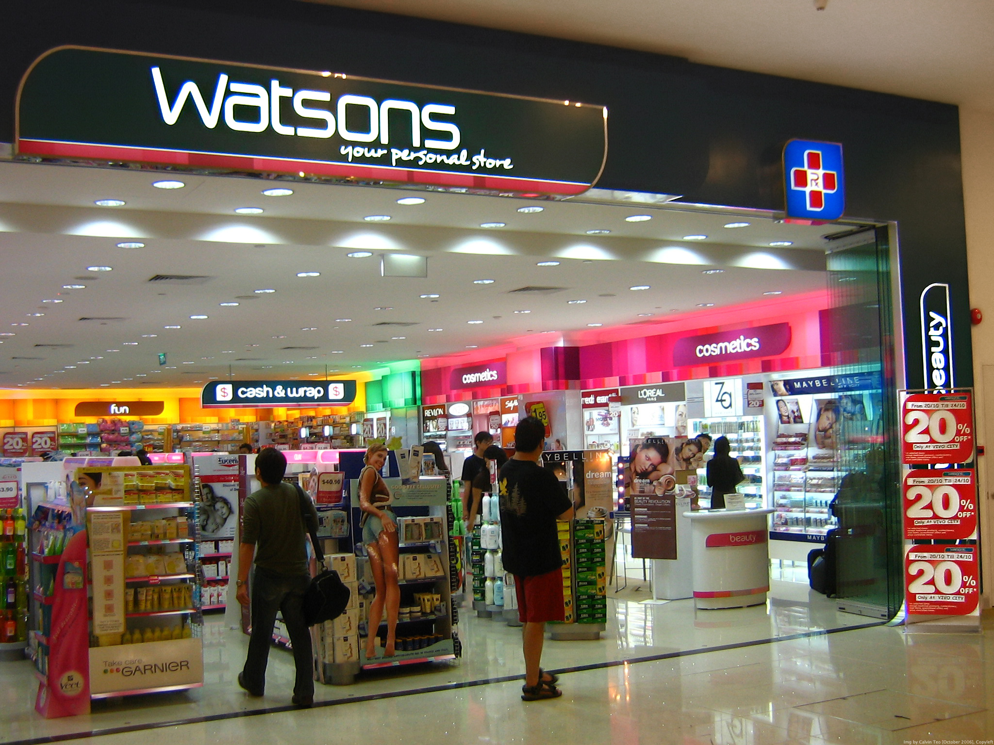 A shop from the "Watsons Your Personal Store" drugstore chain in VivoCity, Singapore (Site of former WTC.)